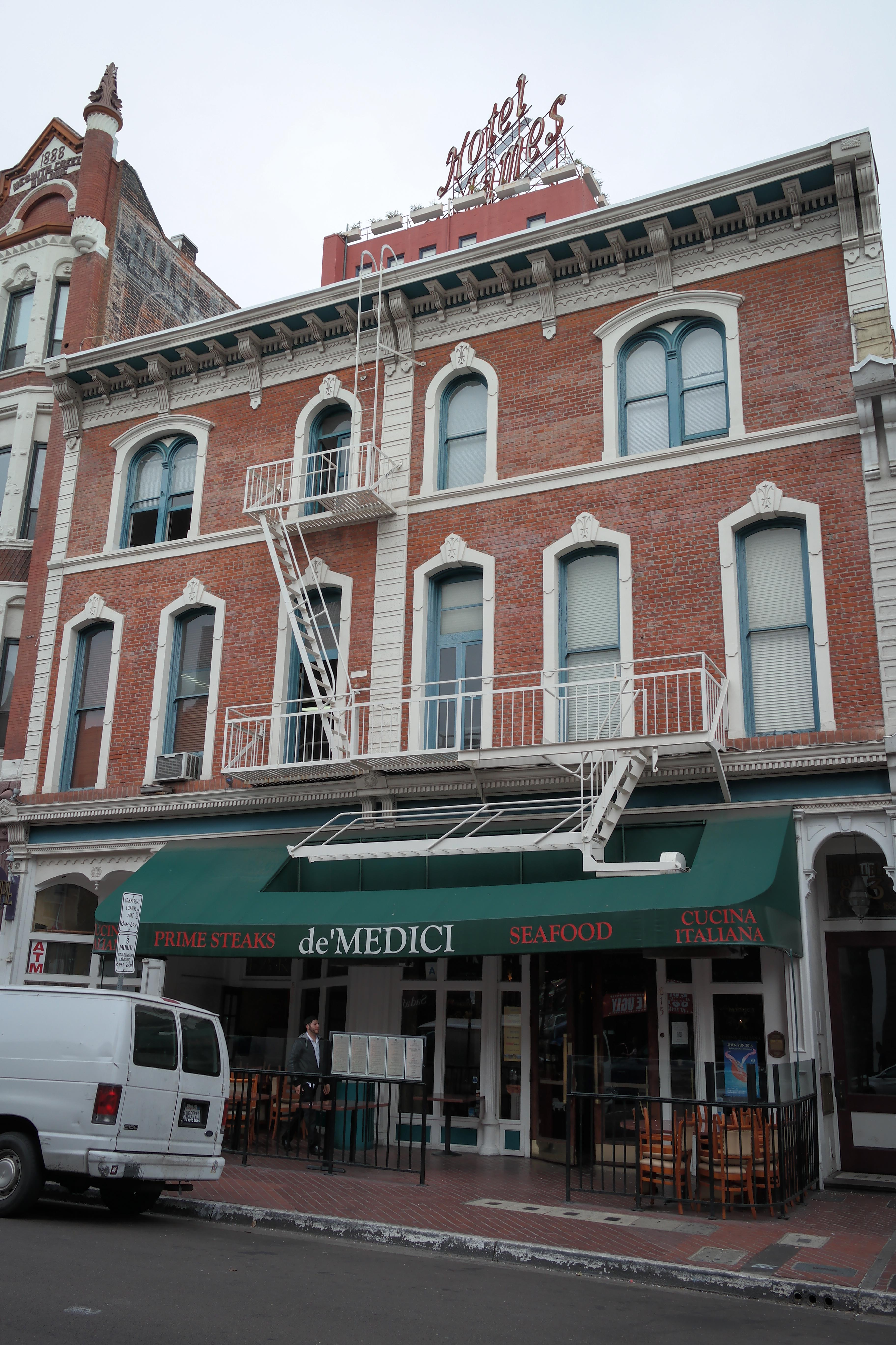 Historic Building Survey plaque: "34 The Hubbell Building, 1886. The Hubbell Building is a three-story brick building constructed in the Victorian style. The lower floor has been used mainly for retail, particularly clothing stores. Some of the more notable shops were The Arcade, specializing in ladies' fancy goods, City of Paris Clothing, and George Marston's Gentlemen's furnishings. Marston's was very successful in San Diego and operated here until it moved into its own building next door. The upper floors were leased to the Grand Army of the Republic from 1904 to 1926."